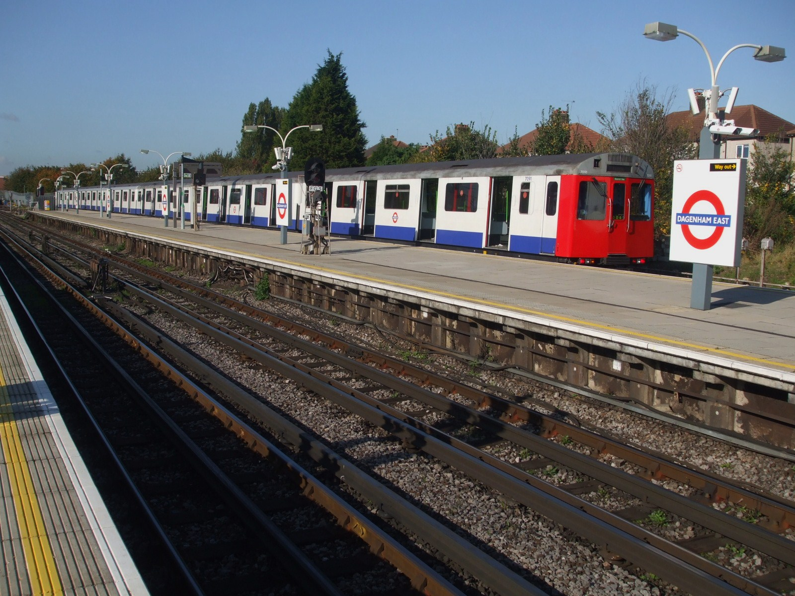 Dagenham East tube station bay platform viewed from western end of the westbound platform, with terminating D Stock train awaiting departure.